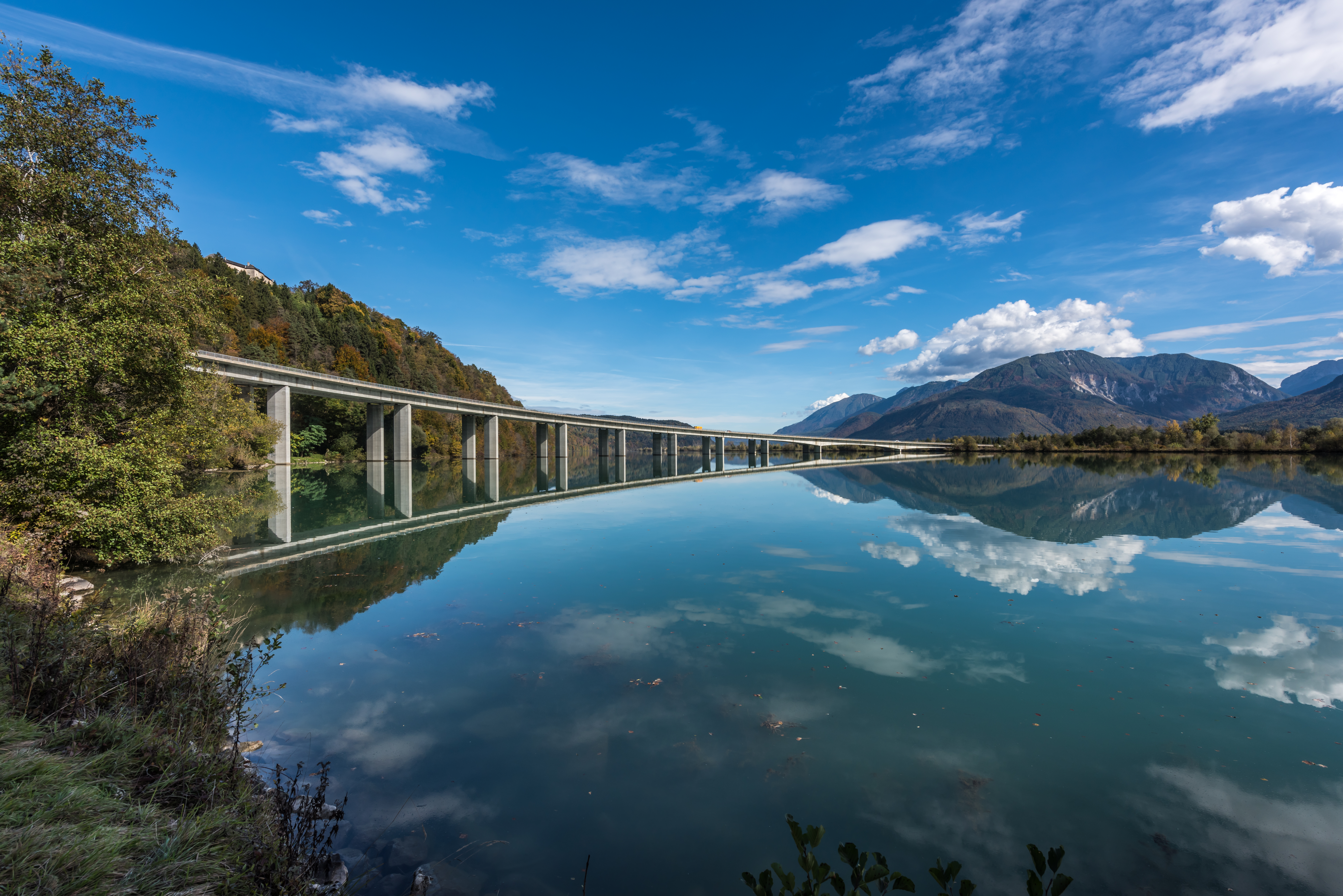 Road bridge of the „Loiblpass Strasse B91“ across the Ferlach reservoir of the river Drava in Unterschlossberg (submontane the castle Hollenburg), municipality Köttmannsdorf, district Klagenfurt Land, Carinthia, Austria, EU